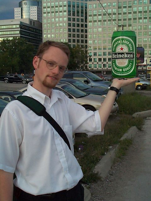 Andrew Kilpatrick, personal photos. Example of forced perspective in photography